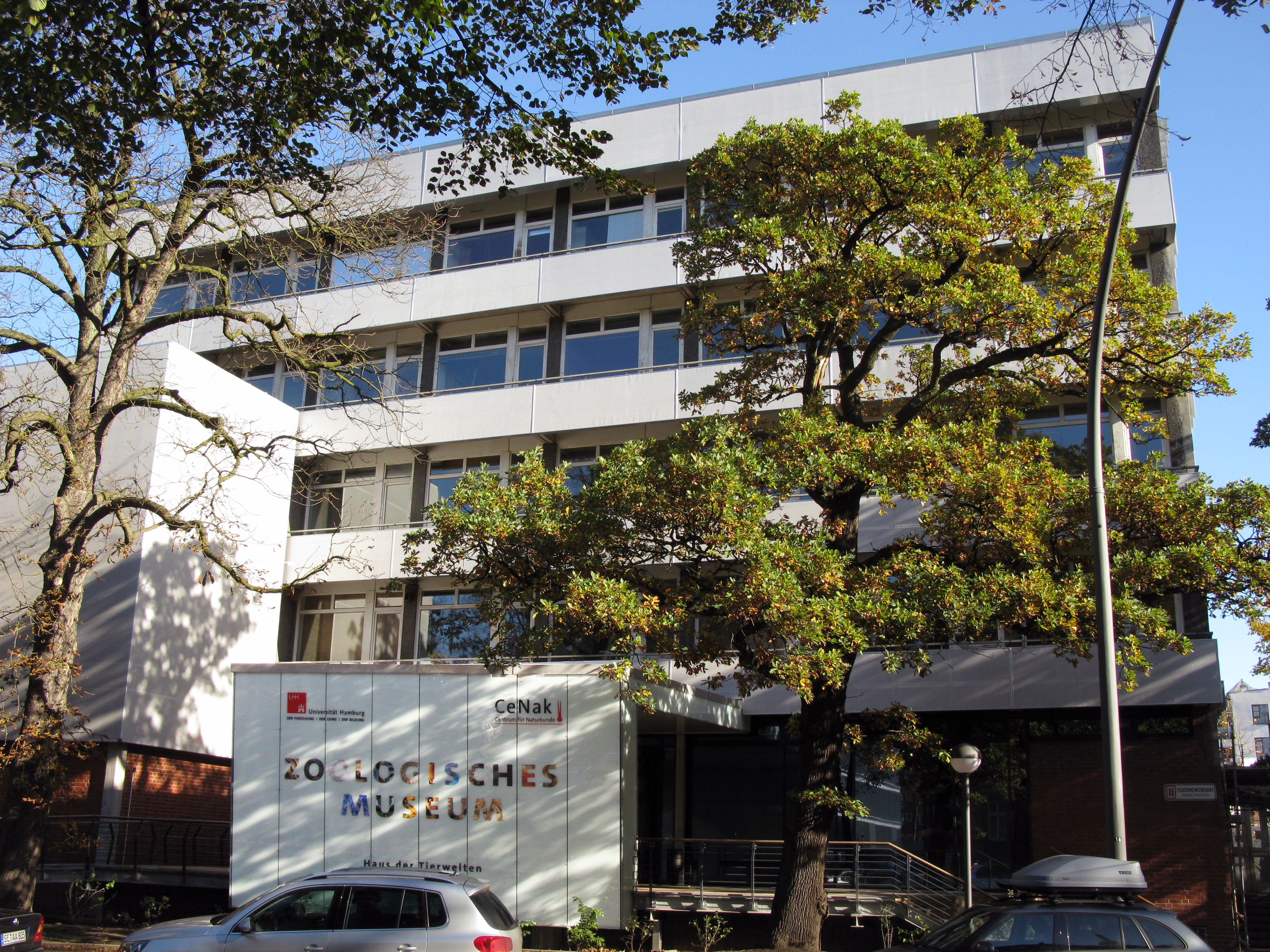 Main entrance to Zoological Museum of Hamburg University